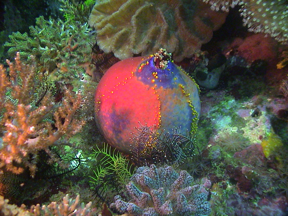 This photograph of a Sea Apple at Cannibal Rock in Indonesia was taken by Bradley Wm. Bowen during the last week of November, 2002.